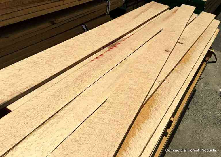 This picture is of an opened bundle of hardwood lumber that has birdseye figure.